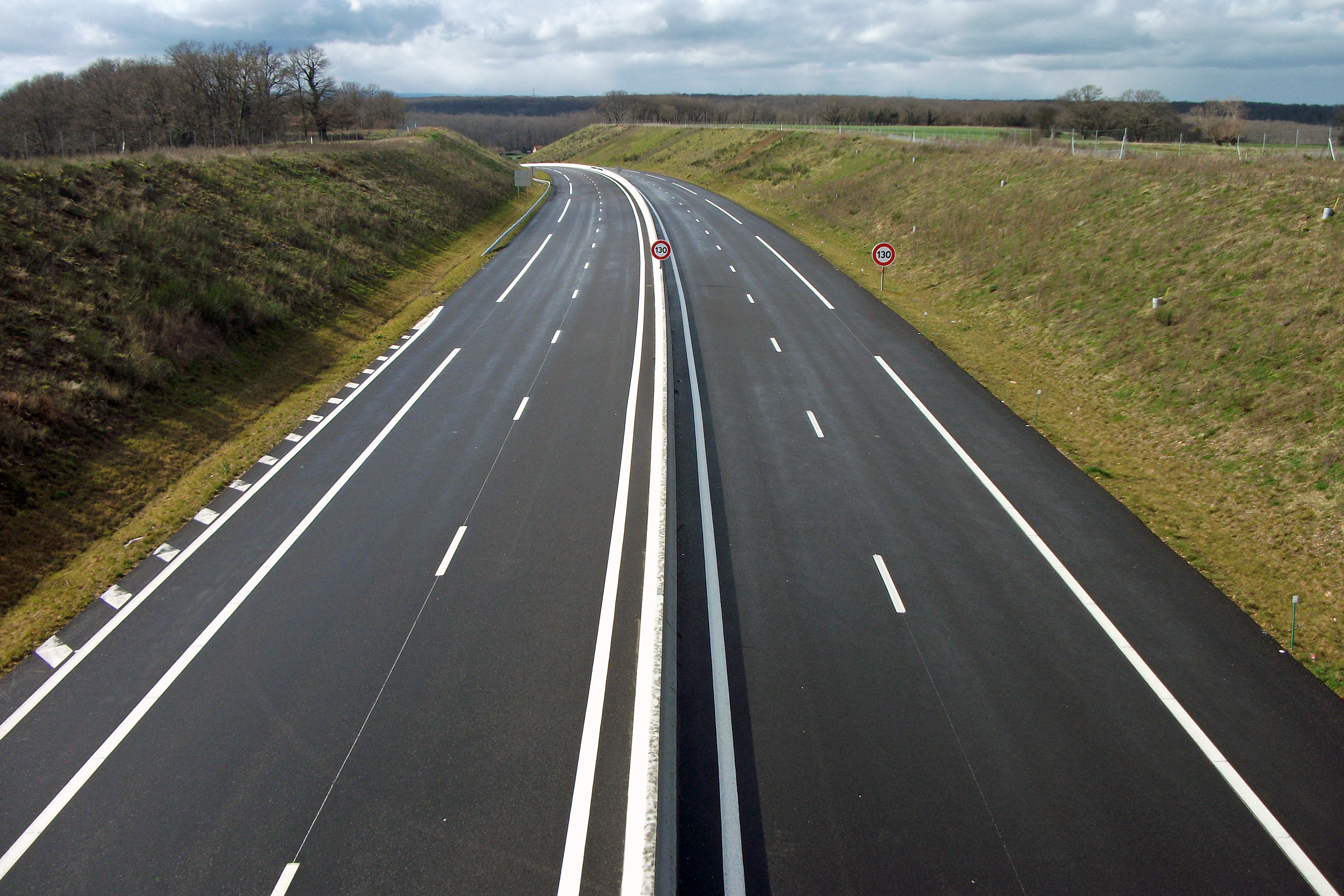 A719 autoroute, directions Montluçon, Clermont-Ferrand, Riom, near Vendat and Espinasse-Vozelle, Allier, from the bridge of the Rue de Champodon [10182]